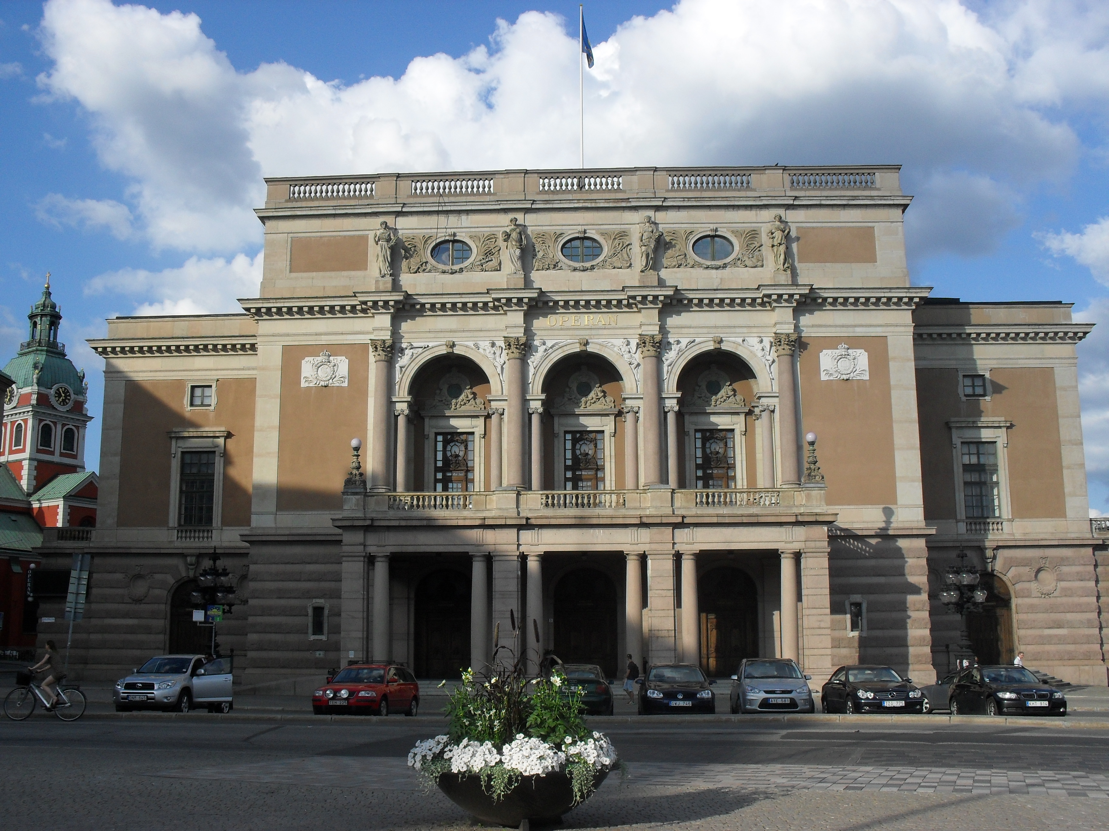 A view of the Stockholm Royal Opera House, Sweden